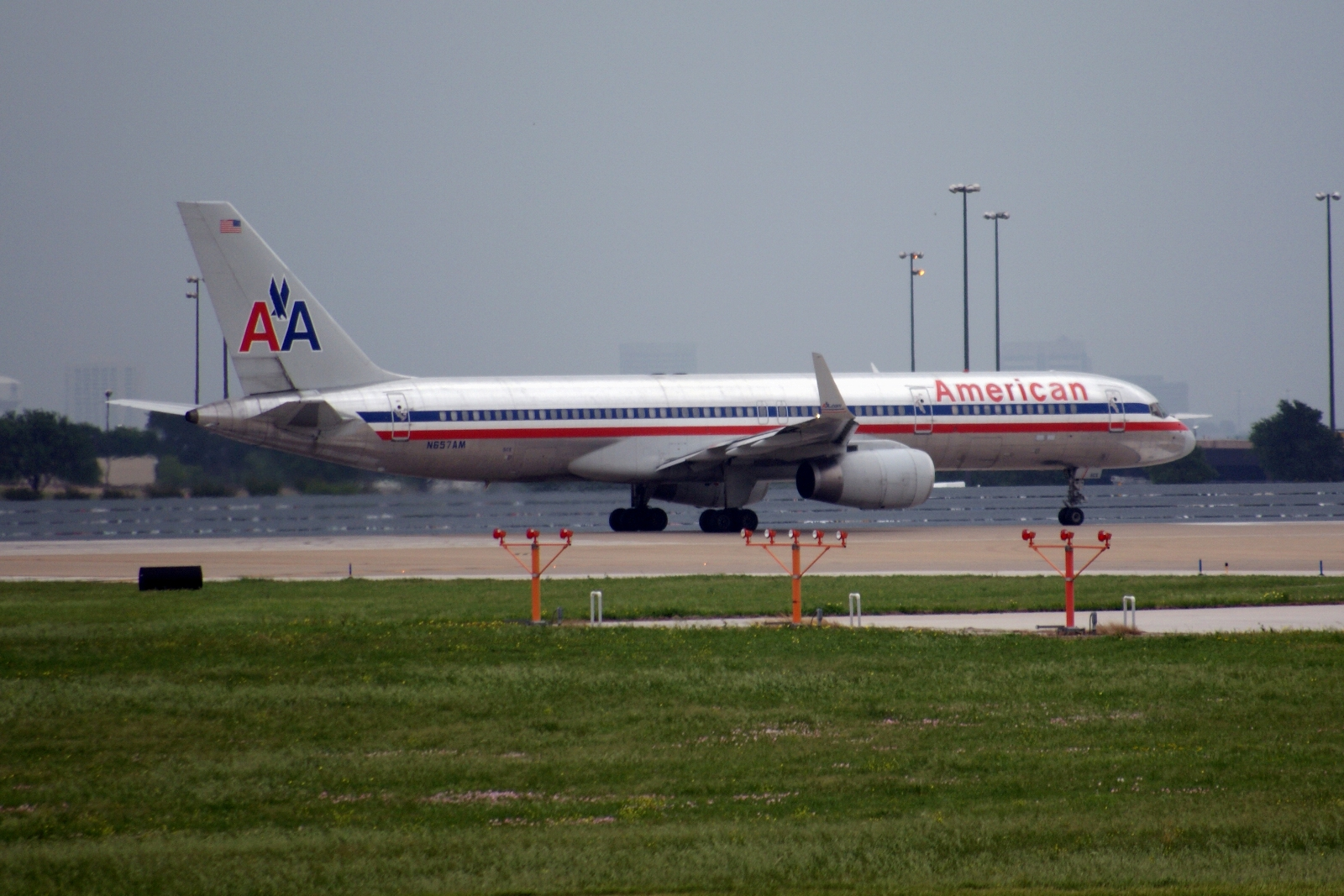 Boeing 757-223